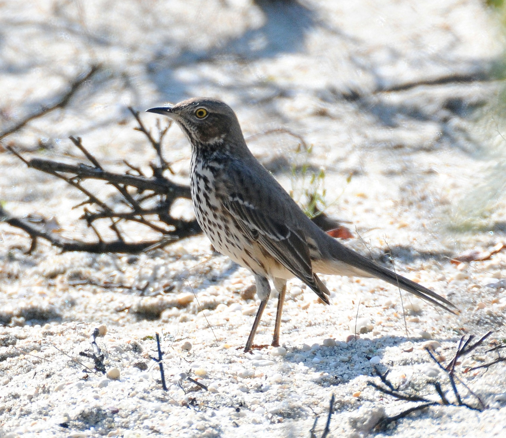 A Sage Thrasher in Sandy Hook, New Jersey, USA. A rare visitor to this area, this bird is normally found in the south-western part of the USA.